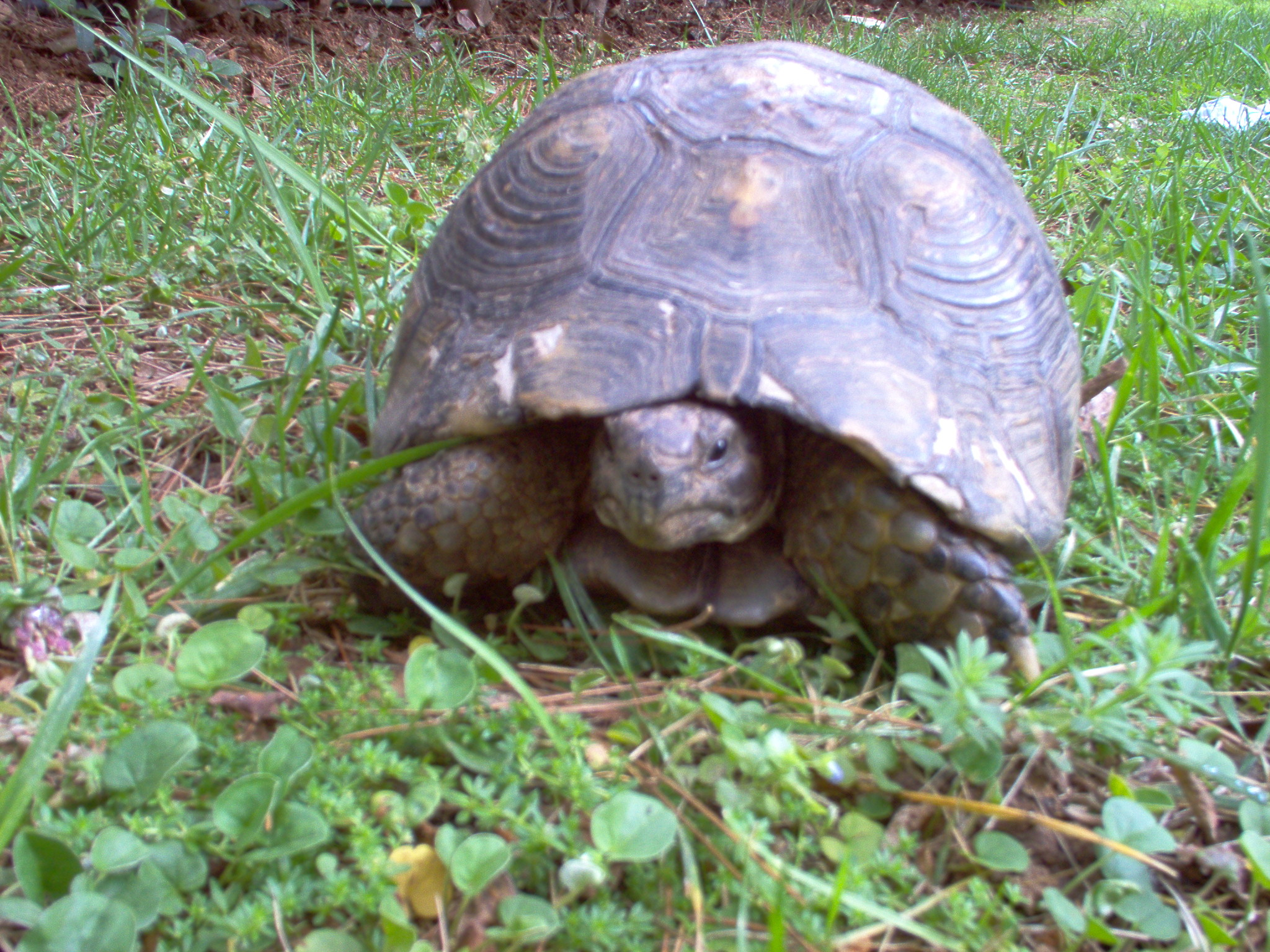 common turtle, greece